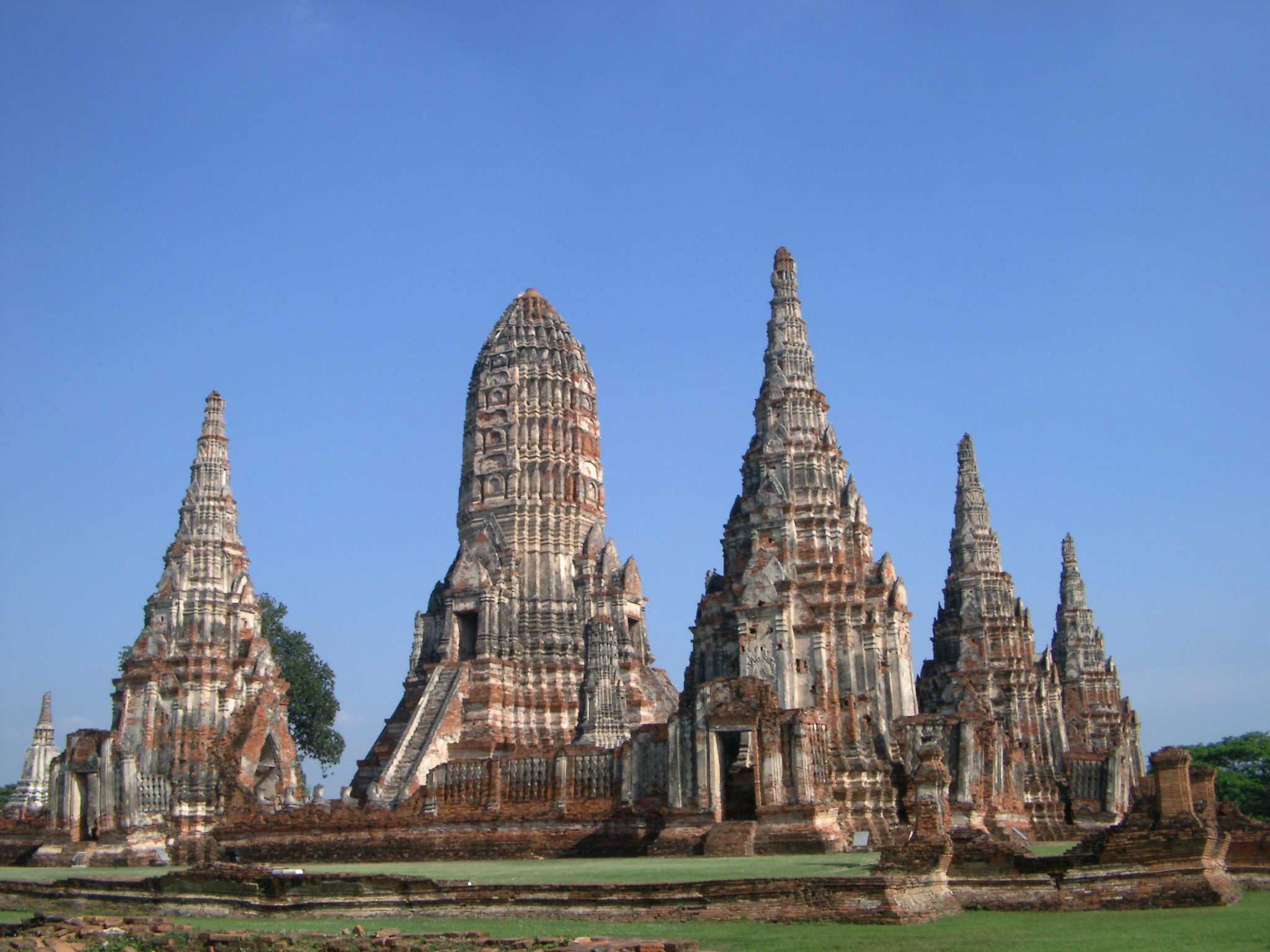 Wat Chaiwatthanaram (also: Wat Chai Watthanaram)